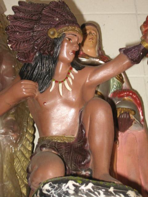 Caboclo Pena-Marrom